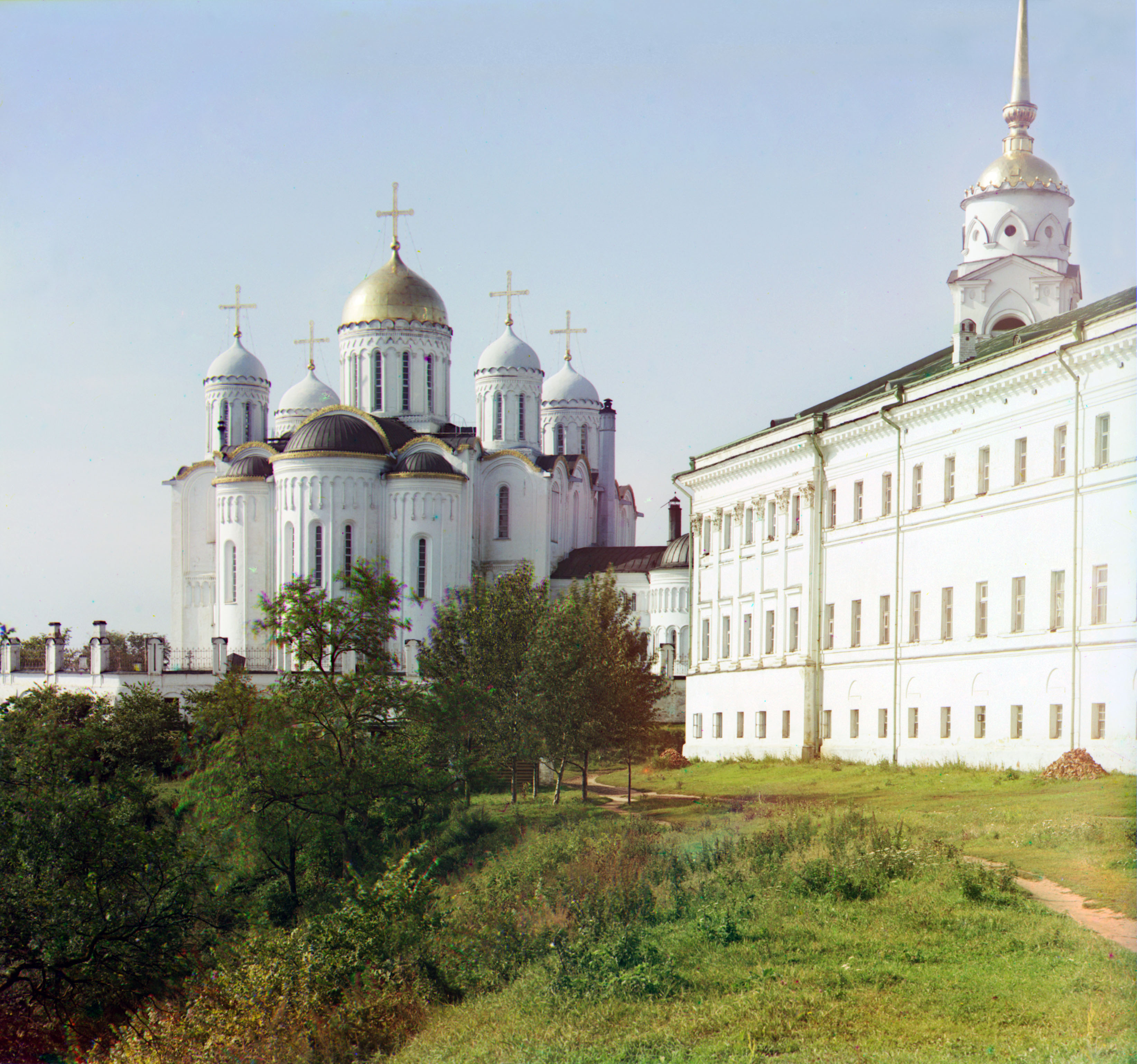 Cathedral of the Assumption of the Holy Virgin in Vladimir (1158-60, 1185-89).